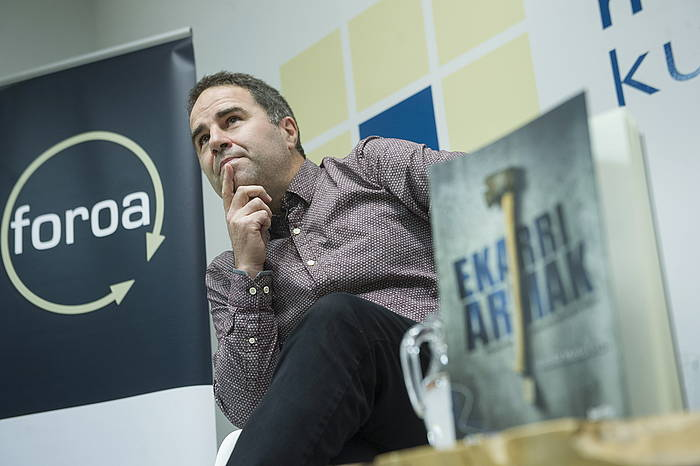 Imanol Murua Uria, basque journalist.